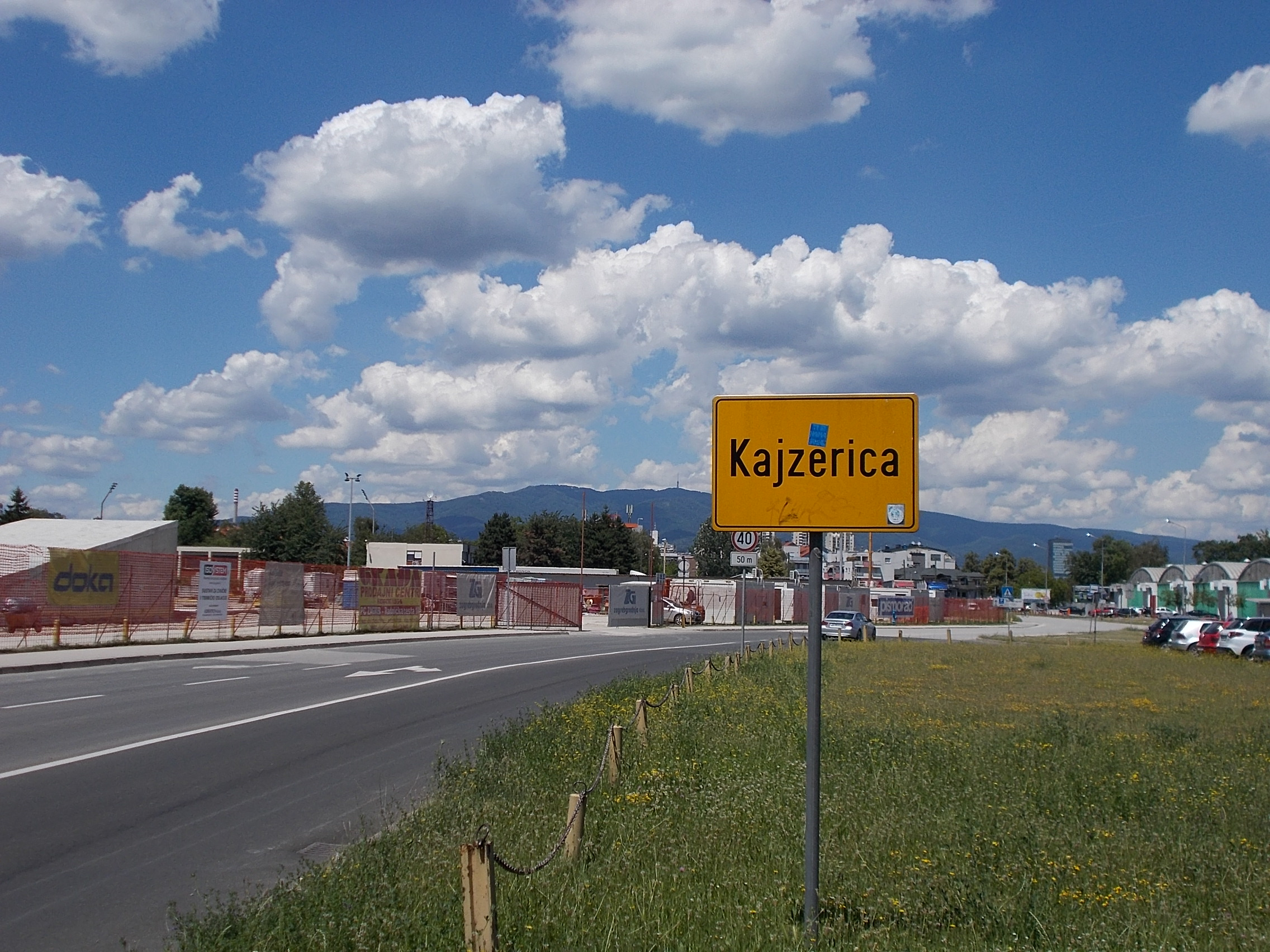 Table at one of the south entrances in the Kajzerica settlement in Novi Zagreb.